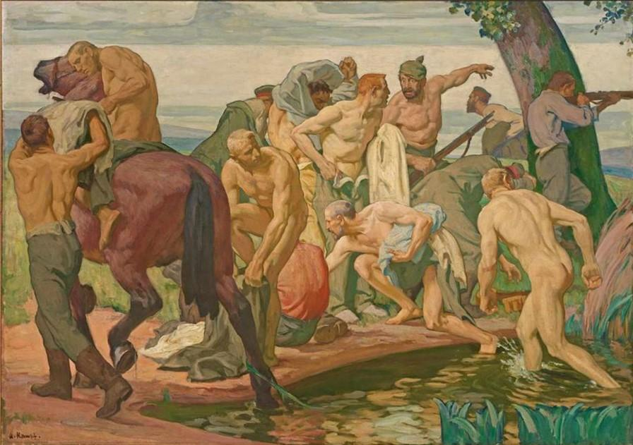 Arthur Kampf, ‘Überfall. Entwurf, 1917’ (‘The Raid. Design, 1917’). Size 160 x 114 cm